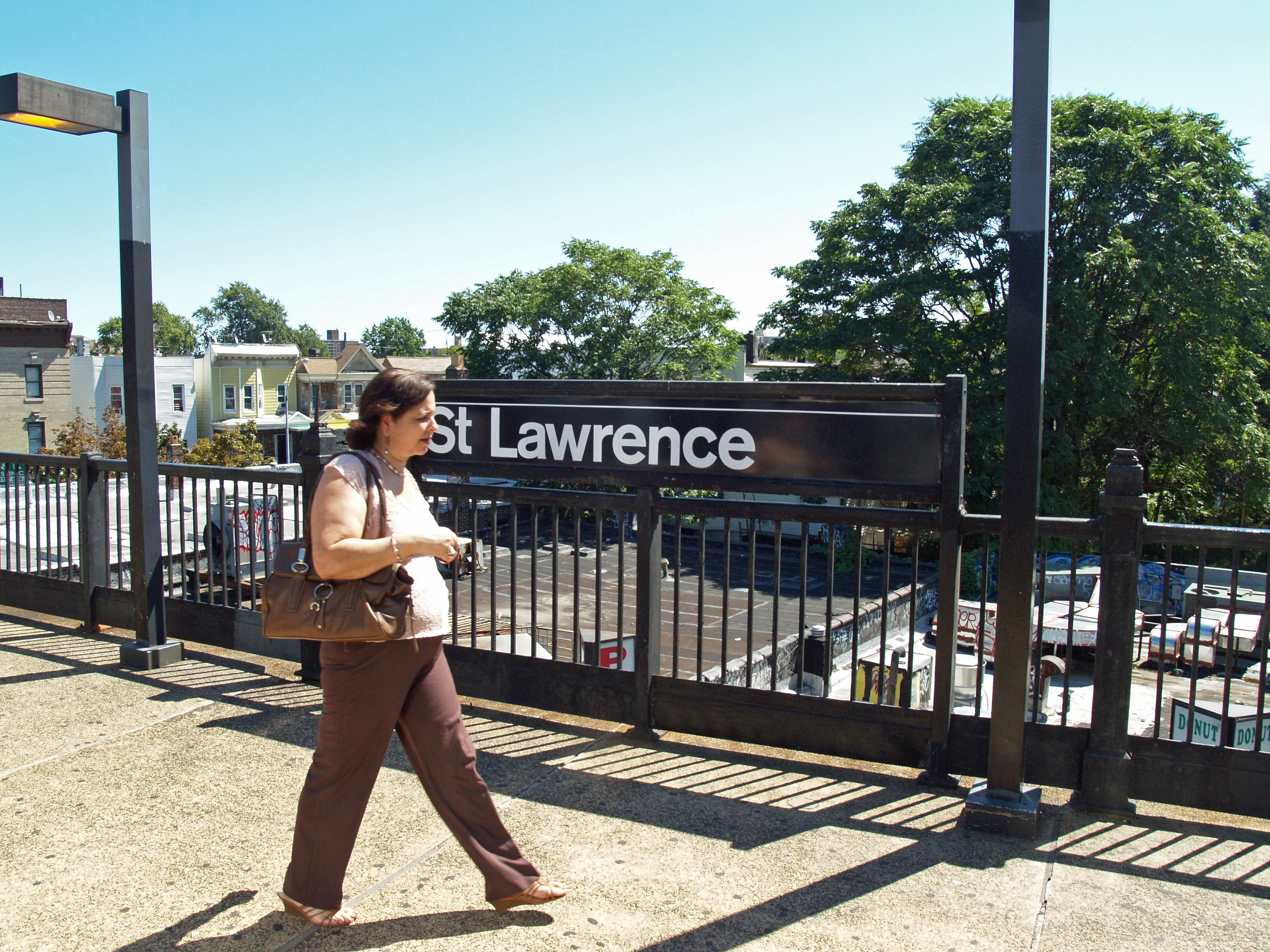 St. Lawrence Avenue (IRT Pelham Line) by David Shankbone